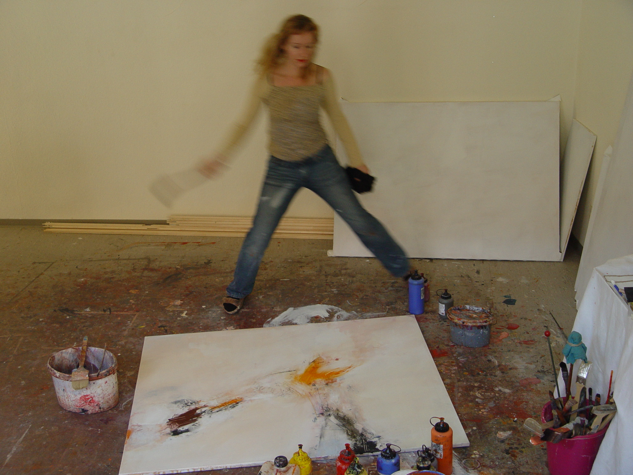 German paintress Regina Reim